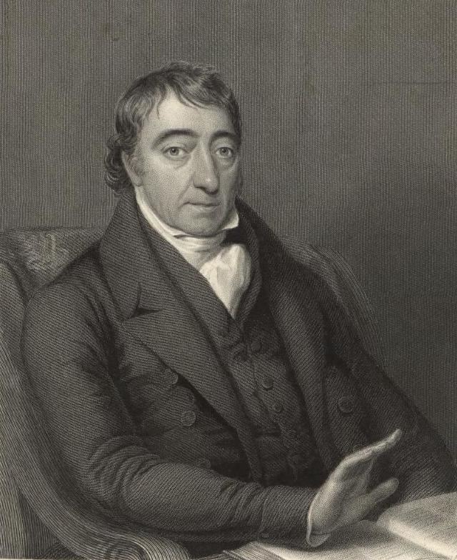 A portrait from the Welsh Portrait Collection at the National Library of Wales. Depicted person: John Evans – Welsh Methodist, born 1779